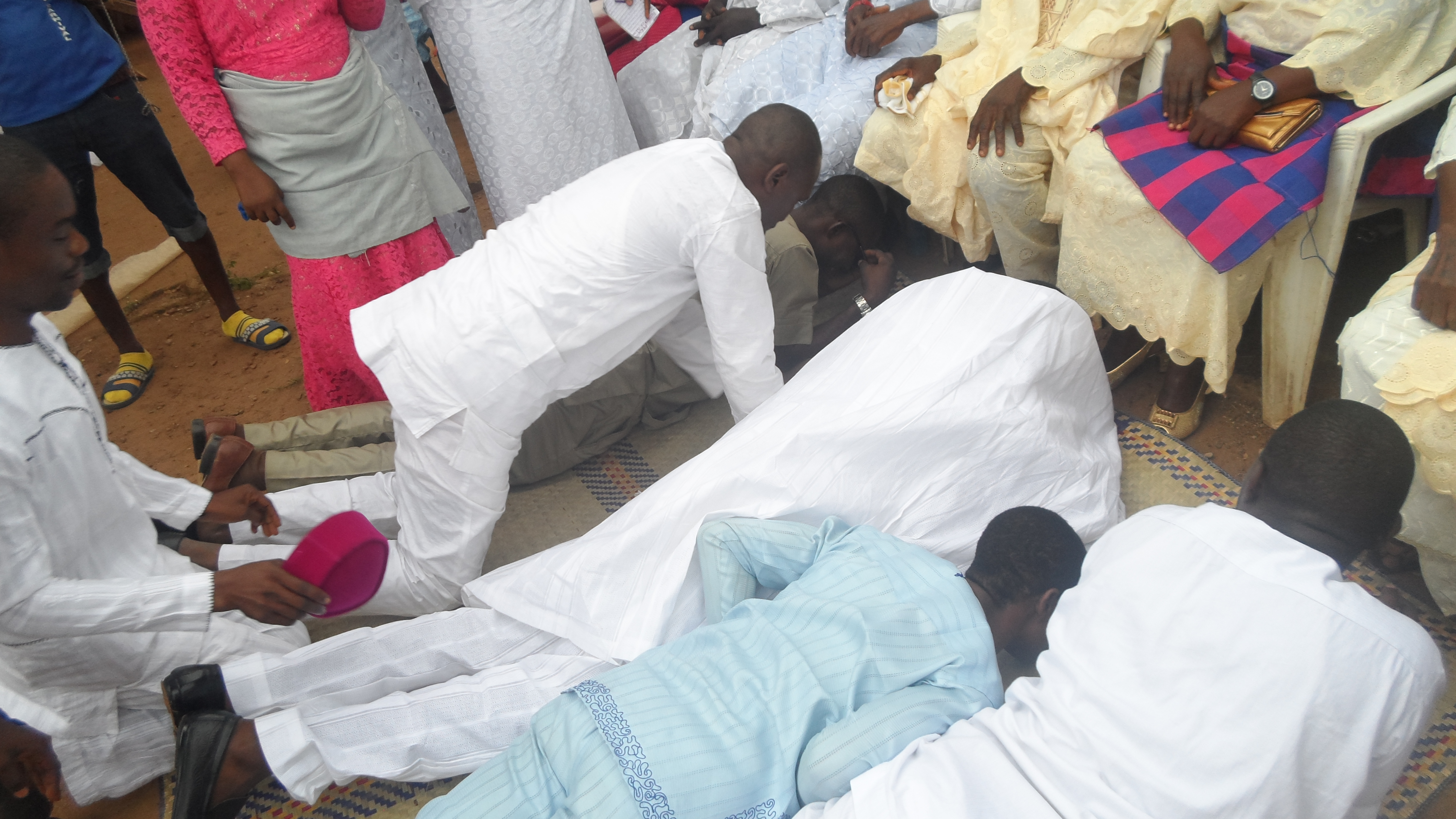 When the groom and his friends are allowed to enter into the compound of the bride, the groom will be ushered to the where the family of the bride are sited and would prostrate before them, greeting them. Аҧсшәа: Ọkọ-ìyàwó àti àwọn ọrẹ rẹ nígbàtí wọn nkí awọn ìdílé ìyàwó, ìdọbálẹ lá nkí àna. Alága ìdúró yio sáájú ọkọ-ìyàwó àti àwọn ọrẹ rẹ lọ síbi tí awọn ìdílé ìyàwó wà tabi joko si lati lati lọ ki wọn This is an image with the theme "Play" from: Nigeria